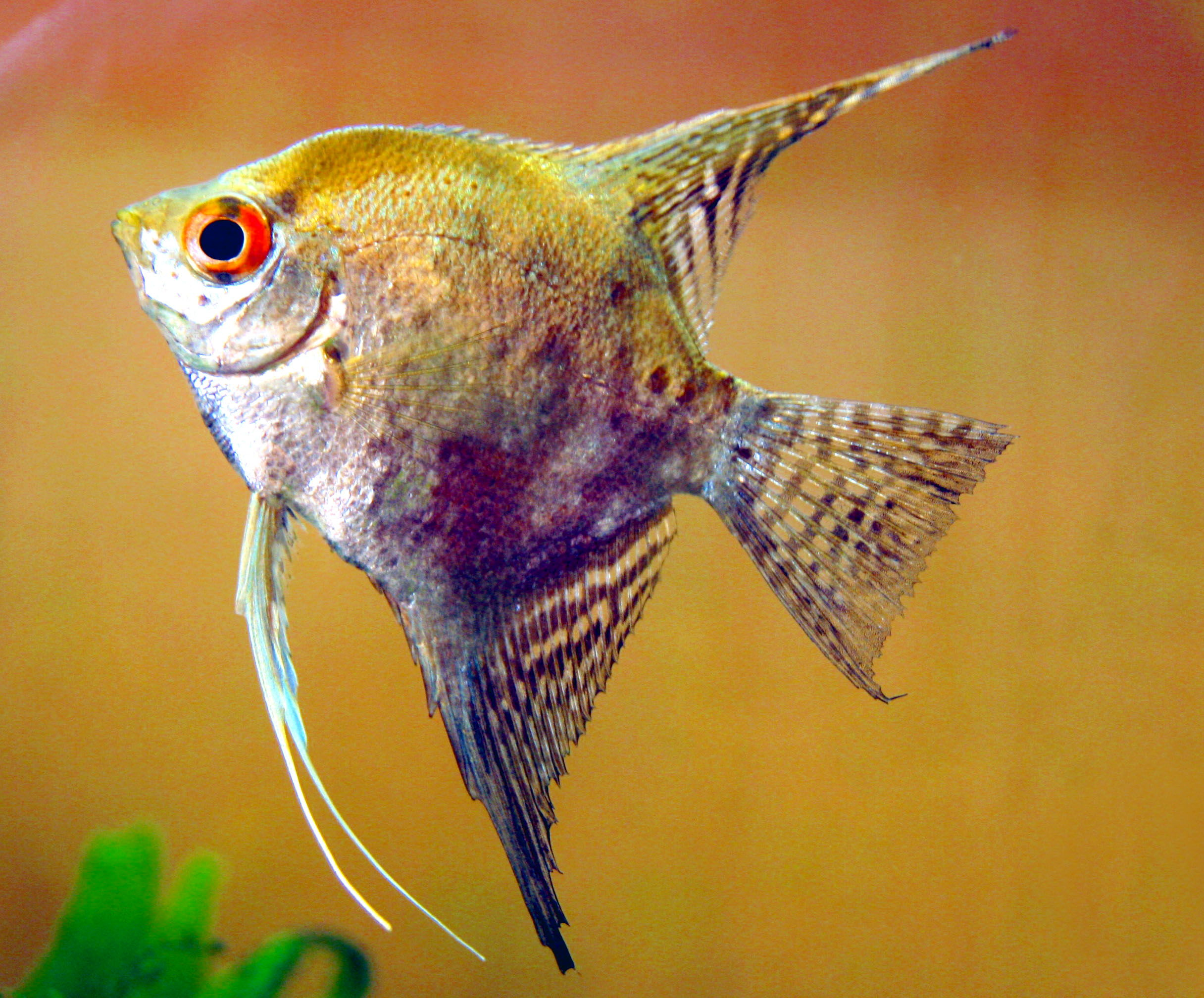 Angelfish (Pterophyllum scalare), photographed in Scotland